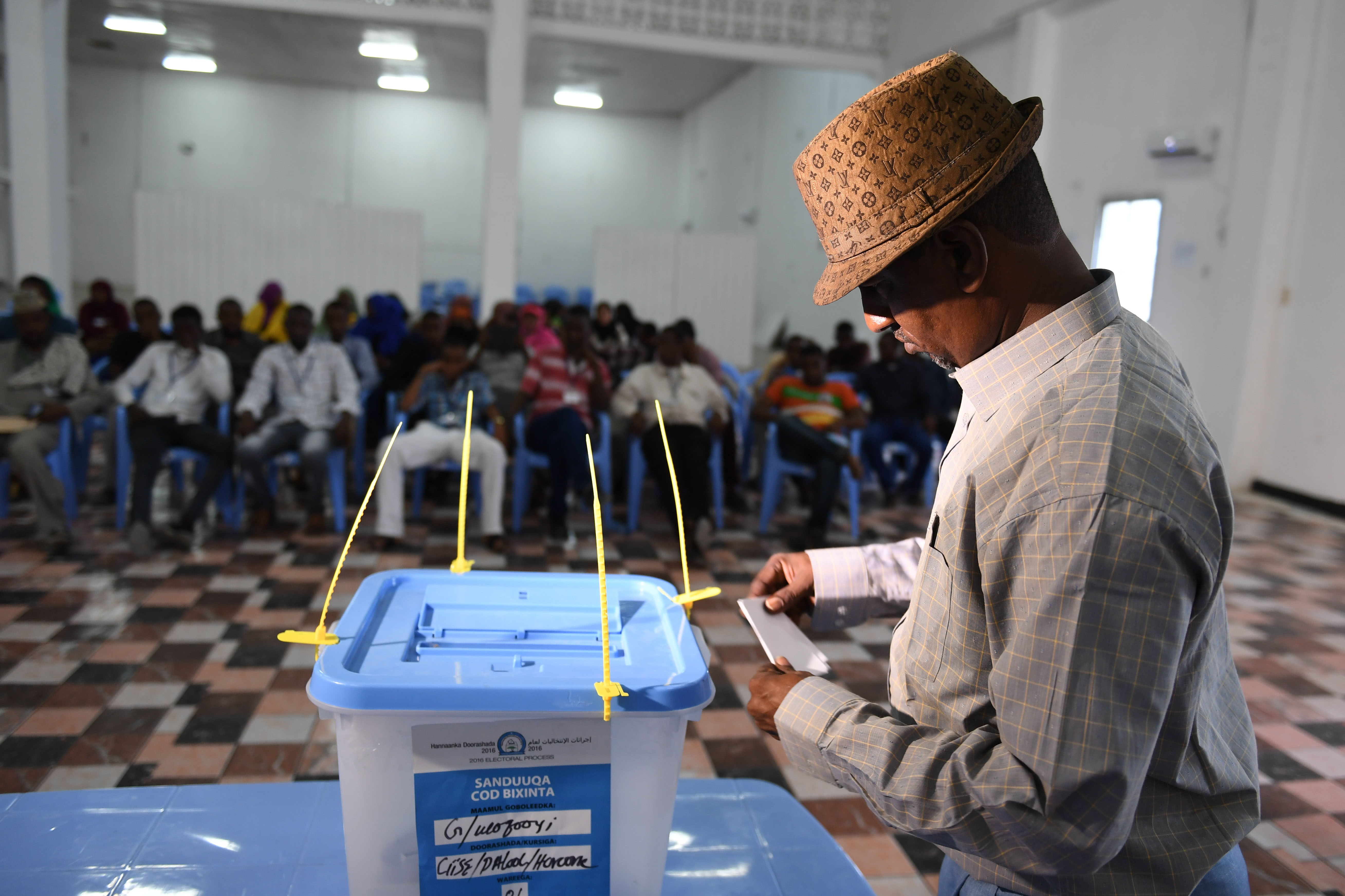 A delegate from Somaliland votes during the ongoing electoral process in Mogadishu, Somalia, on December 19, 2016. AMISOM Photo / Ilyas Ahmed